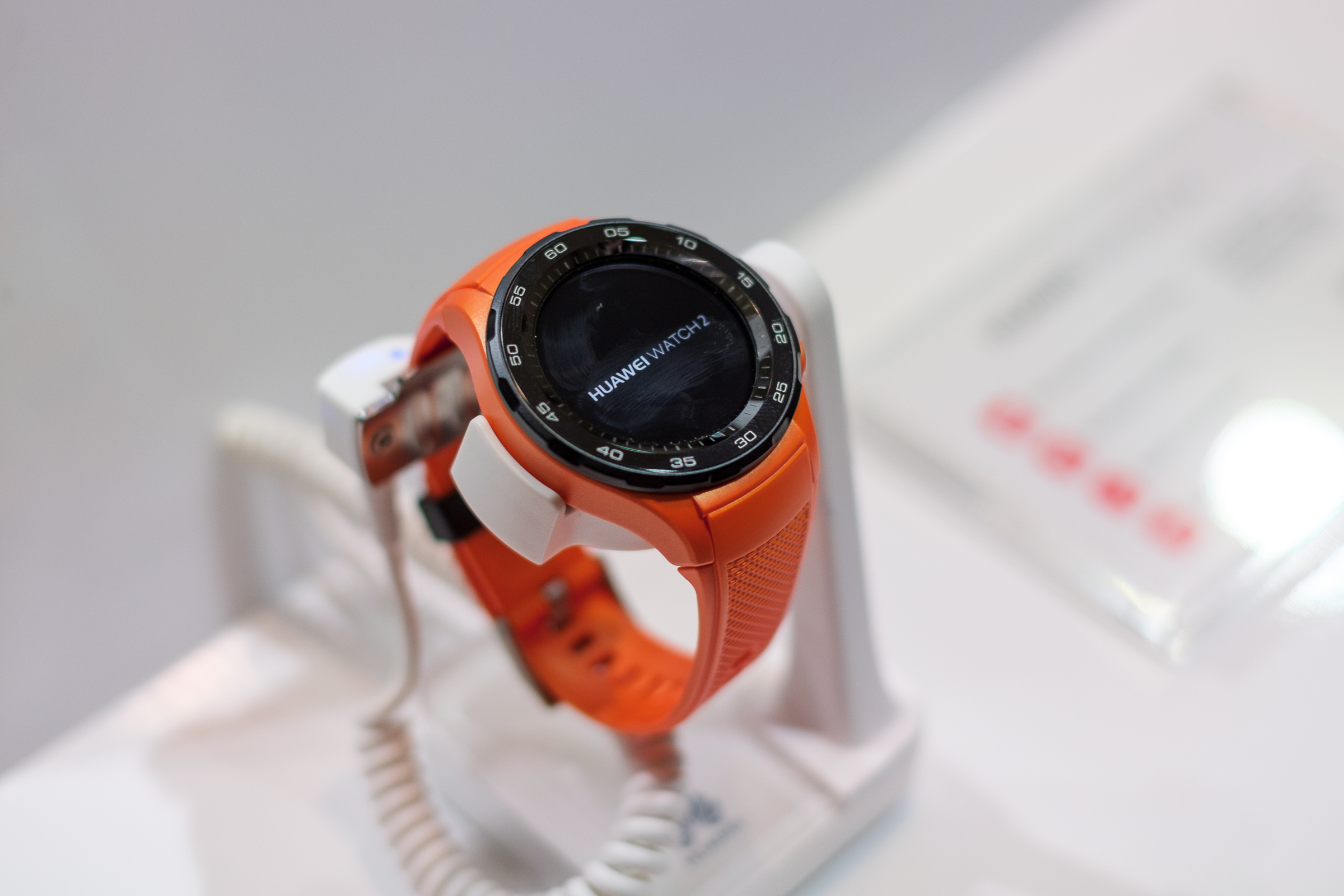 Mobile Wolrd Congress 2017